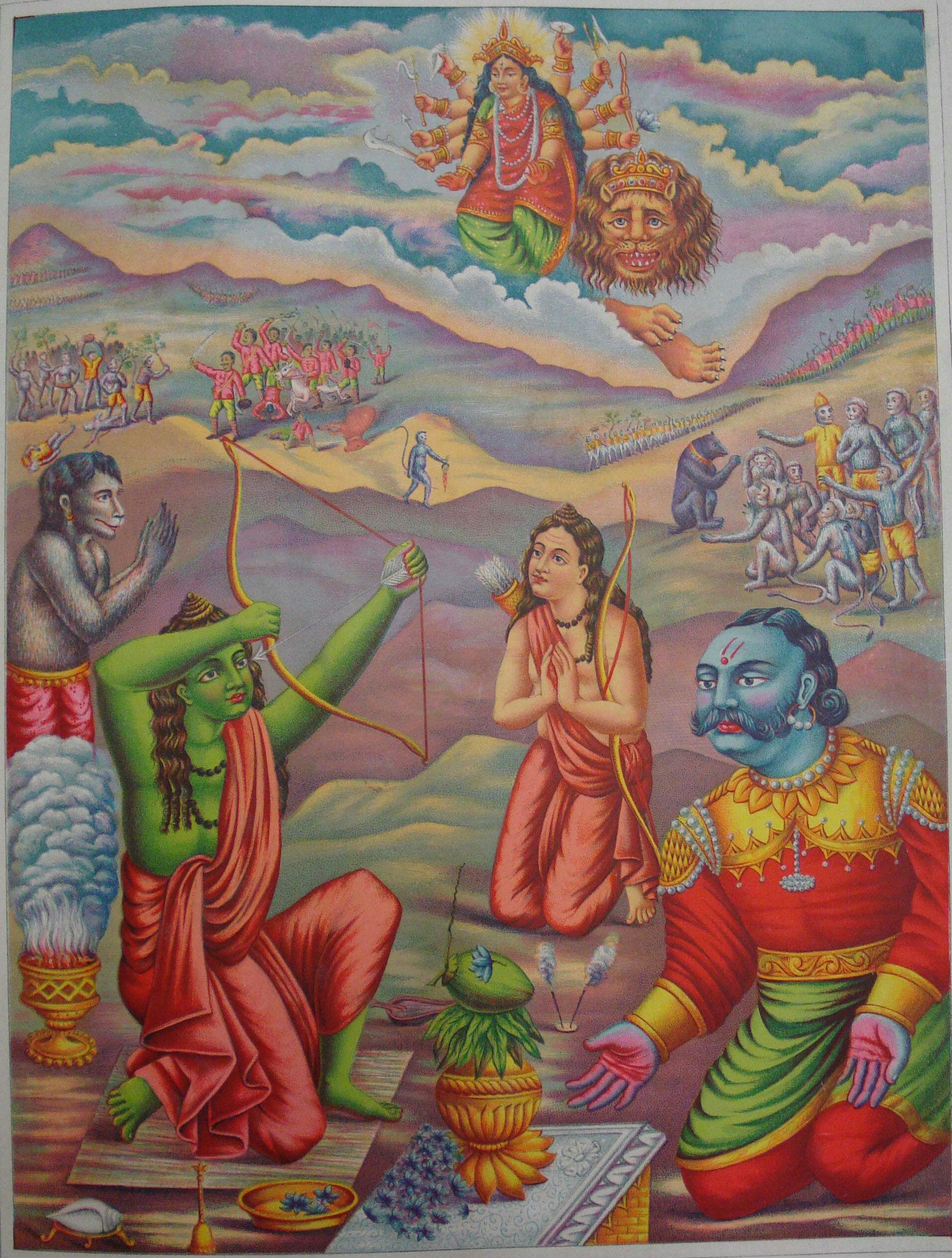 Album of popular prints mounted on cloth pages. Colour lithograph, lettered, inscribed, numbered 48 and depicting a scene from the Ramayana. Rama is shown about to offer his eyes to make up the full number - 108 - of lotus blossoms needed in the puja that he must offer to the goddess Durga to gain her blessing. See 2003, 1022,0.36 for a comparable image from the same series.